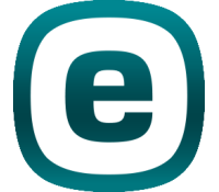 ESET Antivirus v7 logo